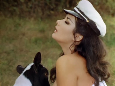 Edwige Fenech in a screenshot from the film Top Sensation (1968).